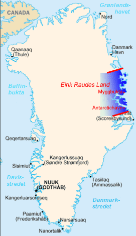 Map over Eirik Raudes Land (Norwegian version). Extension of the part of Greenland occupied by Norway in 1931 - 1933